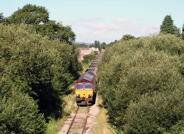 Coal from the Tower Mine heads away towards Aberdare. Its very overgrown on the Tower Branch now as a coal train heads towards Aberdare with coal from Tower the last deep mine in South Wales. Since this picture was taken coal production has ceased at Tower. The railway line from Aberdare to Tower is freight only no passenger services use it.